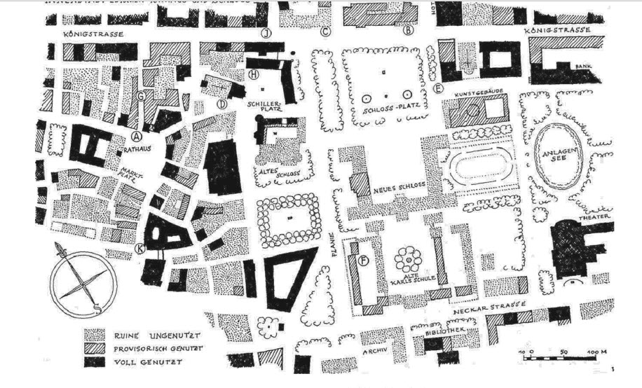 Skizze zur Zerstörung in der Stuttgarter Innenstadt, von Baudirektor Walter Kittel. Genaues Erstellungsdatum nicht bekannt.